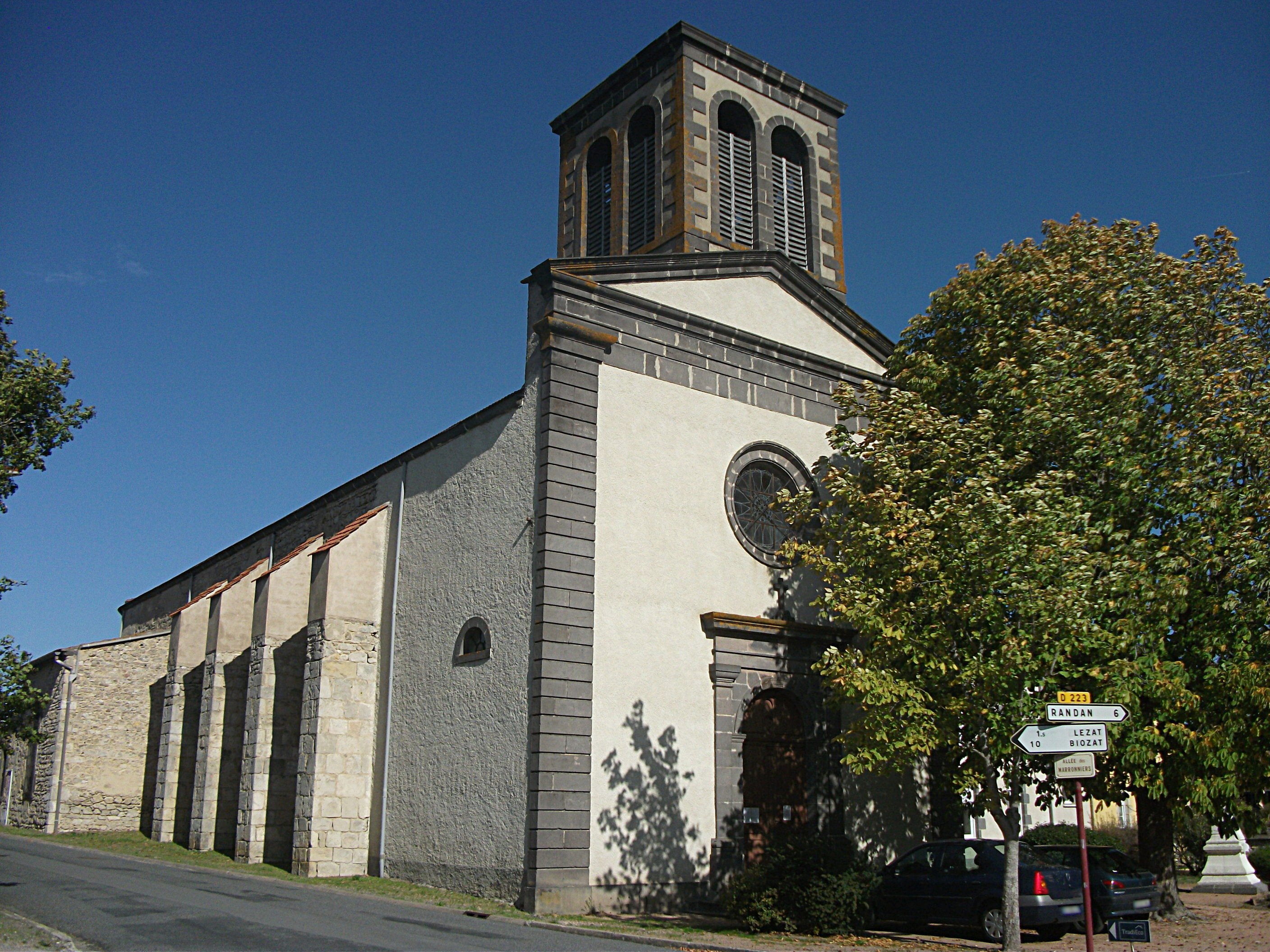 Church of Bas-et-Lezat, Puy-de-Dôme, Auvergne-Rhône-Alpes, France. [19291]